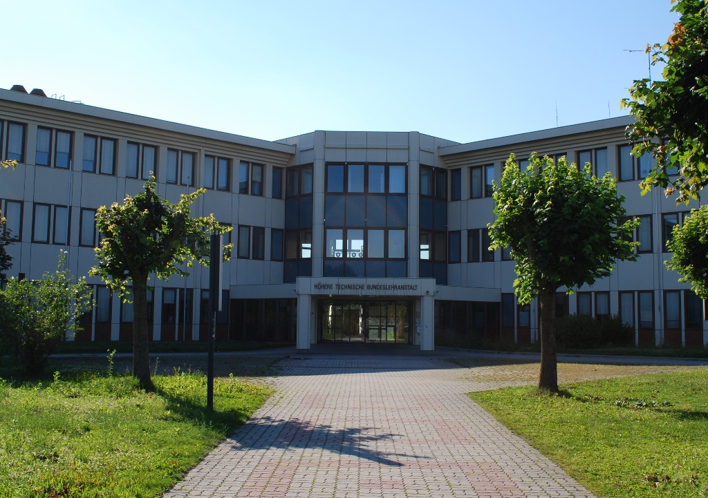 "Höhere Technische Bundeslehranstalt (HTL)" (federal technical high school), Leonding, Austria